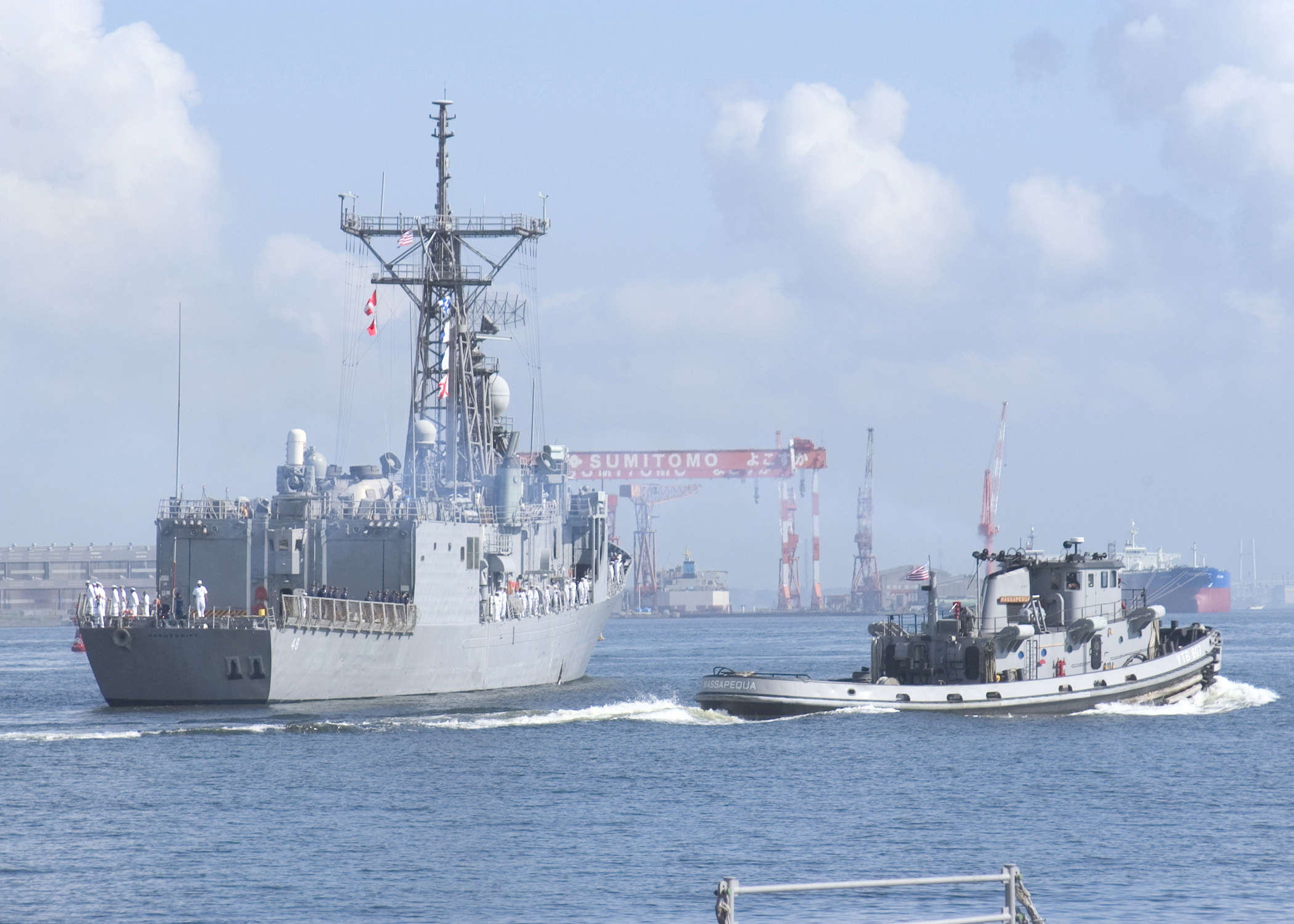 Massapequa (YTB-807) breaks away from the guided-missile frigate Vandegrift (FFG-48) as the frigate departs Yokosuka Bay for the last time as a home-ported vessel of Commander, Fleet Activities Yokosuka (CFAY), Japan, 14 August 2006. Vandegrift is moving to its new homeport of San Diego, CA., after being part of Destroyer Squadron Fifteen (DESRON 15) for nearly ten years. DVIC photo # 060814-N-2716P-032 by MC1 Paul J. Phelps, USN.